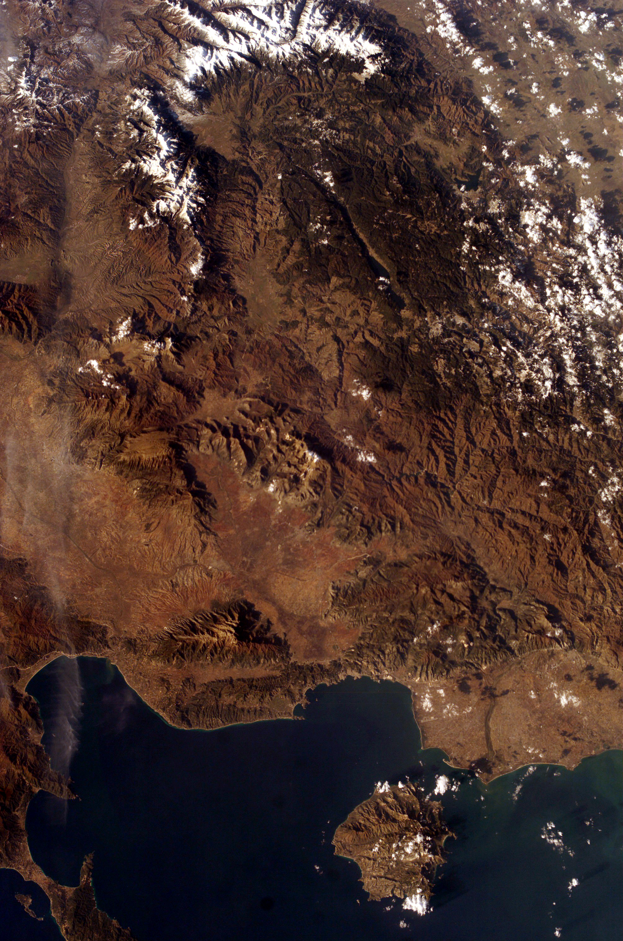 RHODOPE MTS., SNOW, THRASOS